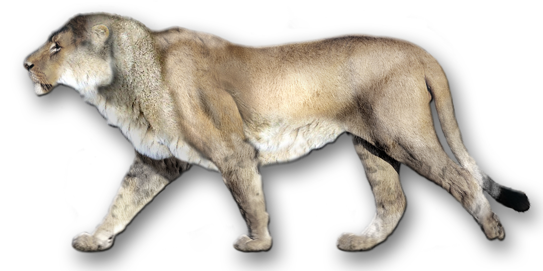 The image was created by me in adobe photoshop, It contains a reconstruction of the North American Lion. I ask that you do not drastically alter the photograph. there are no other links on the web to this image.